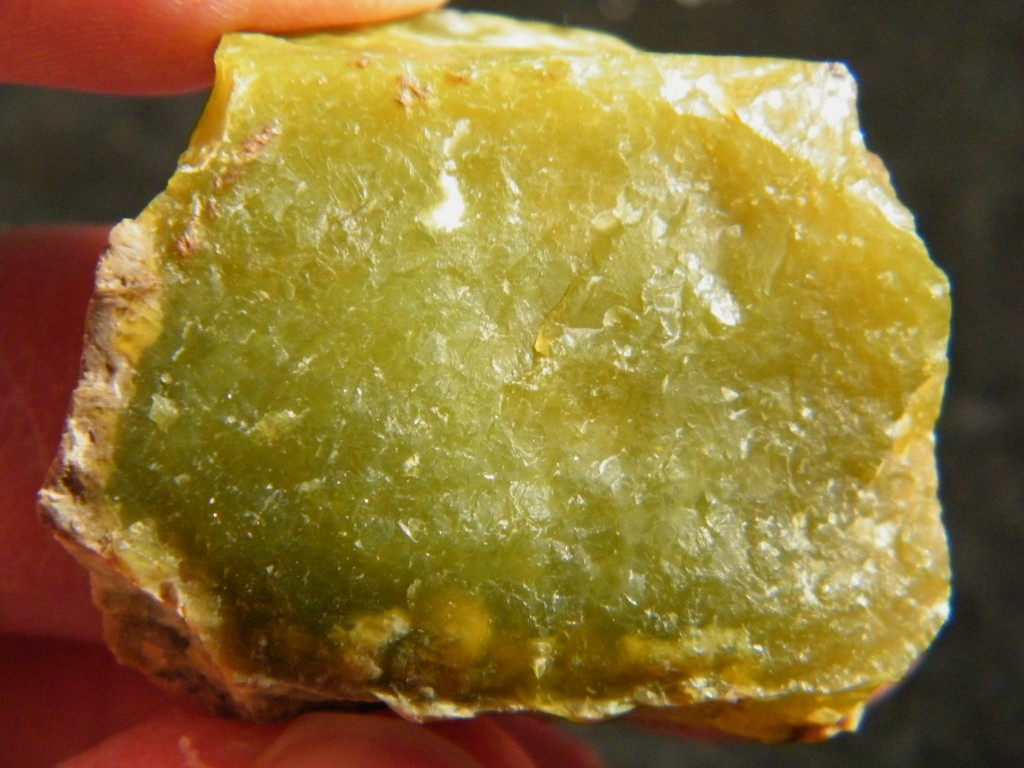 Lizardite (Dimensions: 1.25" x 1" x 1") Locality: Montville, Morris County, New Jersey, USA Gold-green lizardite from Montville NJ. From a collection assembled in the 1960s by Dr. James R. Mason of Chester VT.